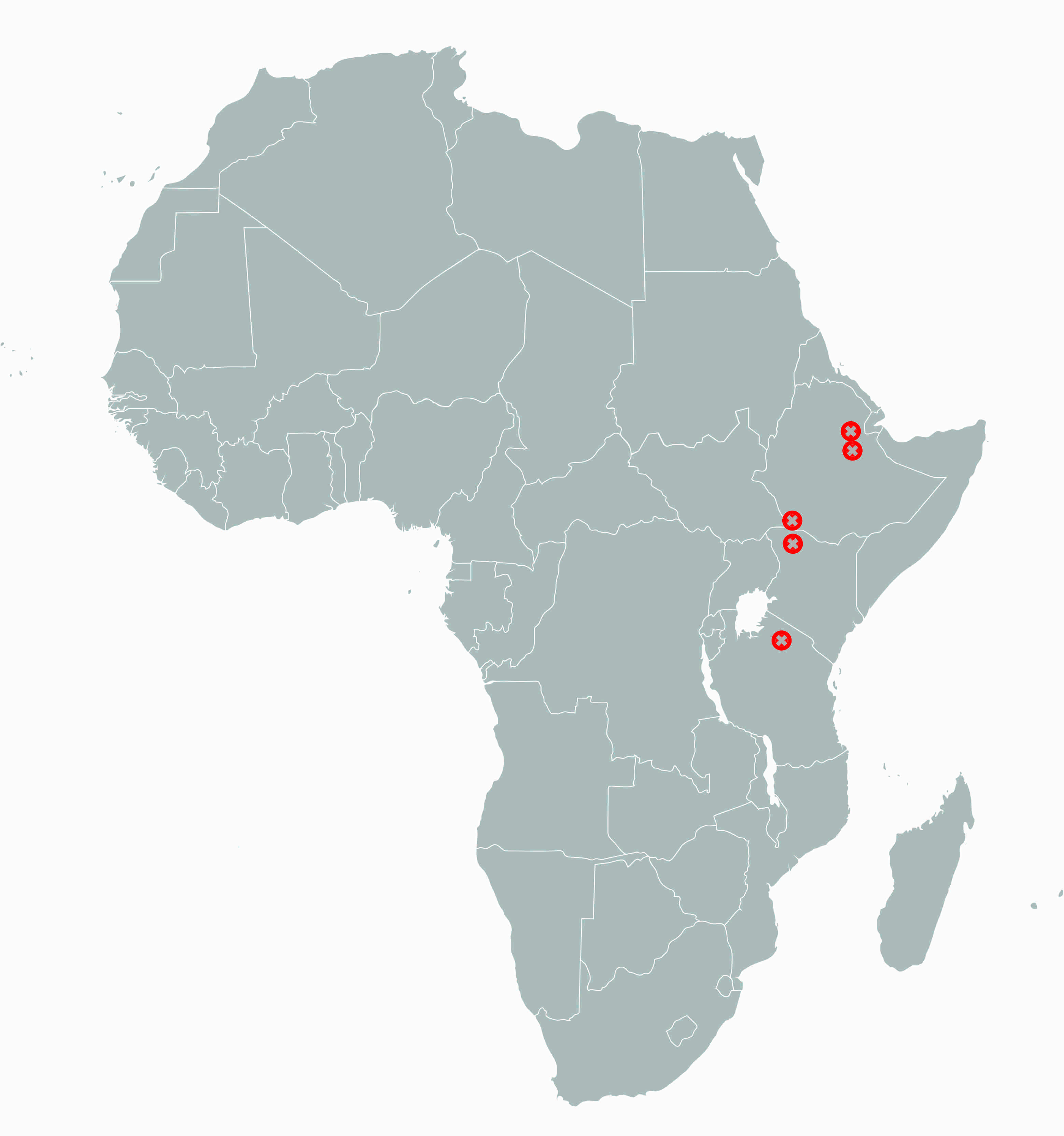 Australopithecus afarensis paleoanthropological sites in Tanzania, Kenya and Ethiopia (Laetoli, Lake Turkana, Omo, Hadar, Woranso-Mile, Dikika)